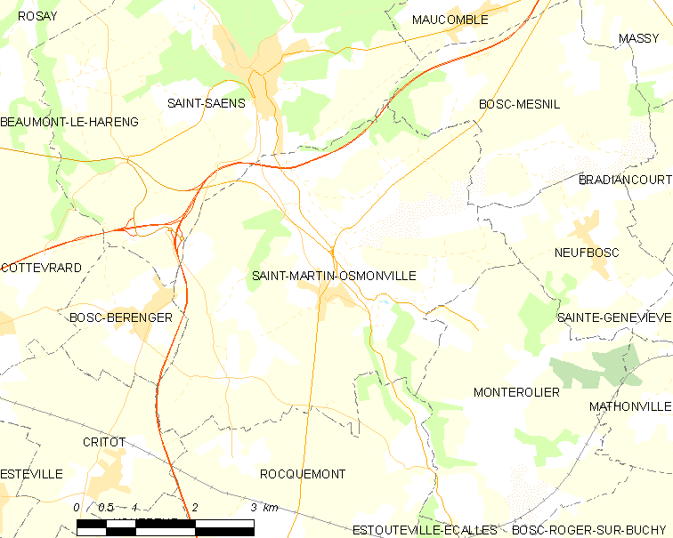 Map of French municipality Saint-Martin-Osmonville